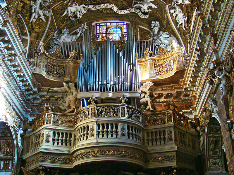 Church of Santa Maria della Vittoria, Rome, Lazio, Italy. The cantoria was decorated by Mattia de Rossi, favourite pupil and collaborator of Gian Lorenzo Bernini (17th Century).